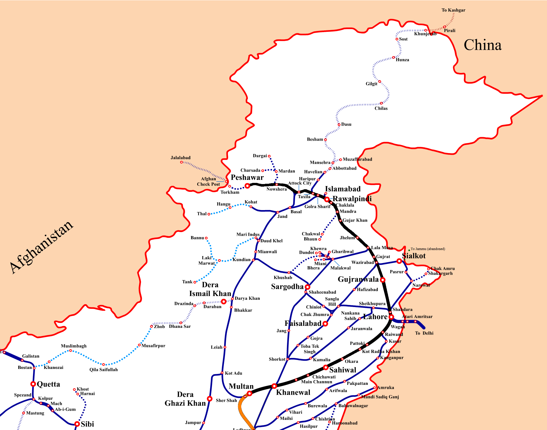 Phase 1 of the Karachi to Peshawar mainline reconstruction